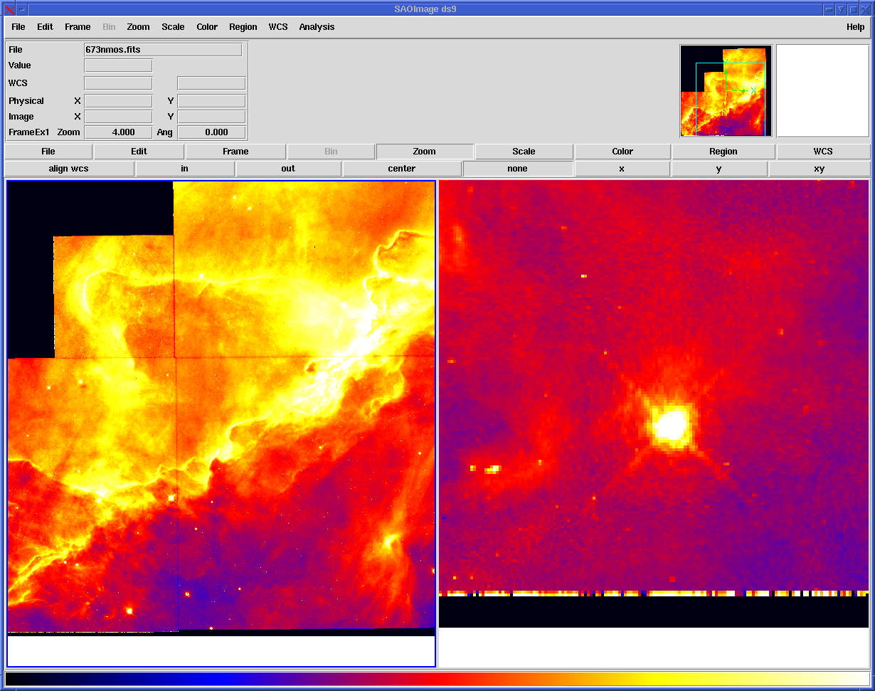 Screenshot of SAOimage DS9